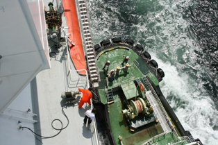 Pilot boarding in Tokyo bay